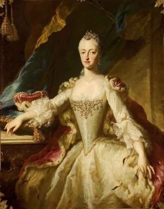 Portrait of Duchess Maria Anna Josepha of Bavaria (1734-1776), future Margravine of Baden-Baden